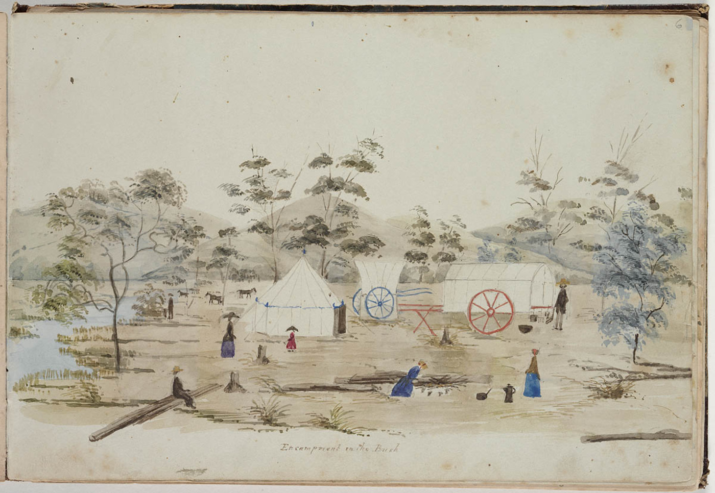 Painting by Emma Macpherson (1833-1915)